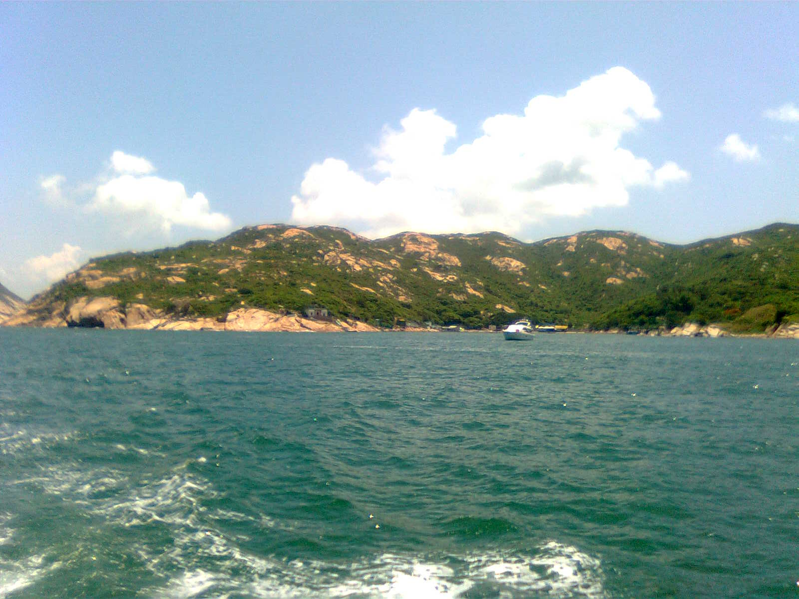 Po Toi Tai Wan